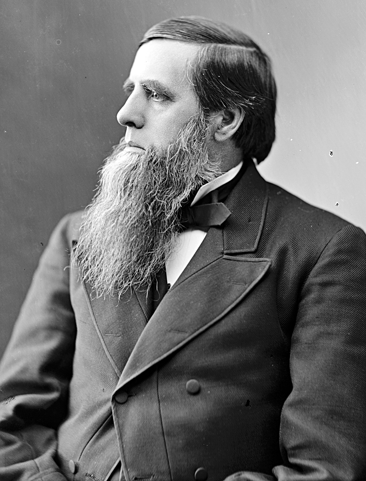 Edwin Willits, US Representative from Michigan